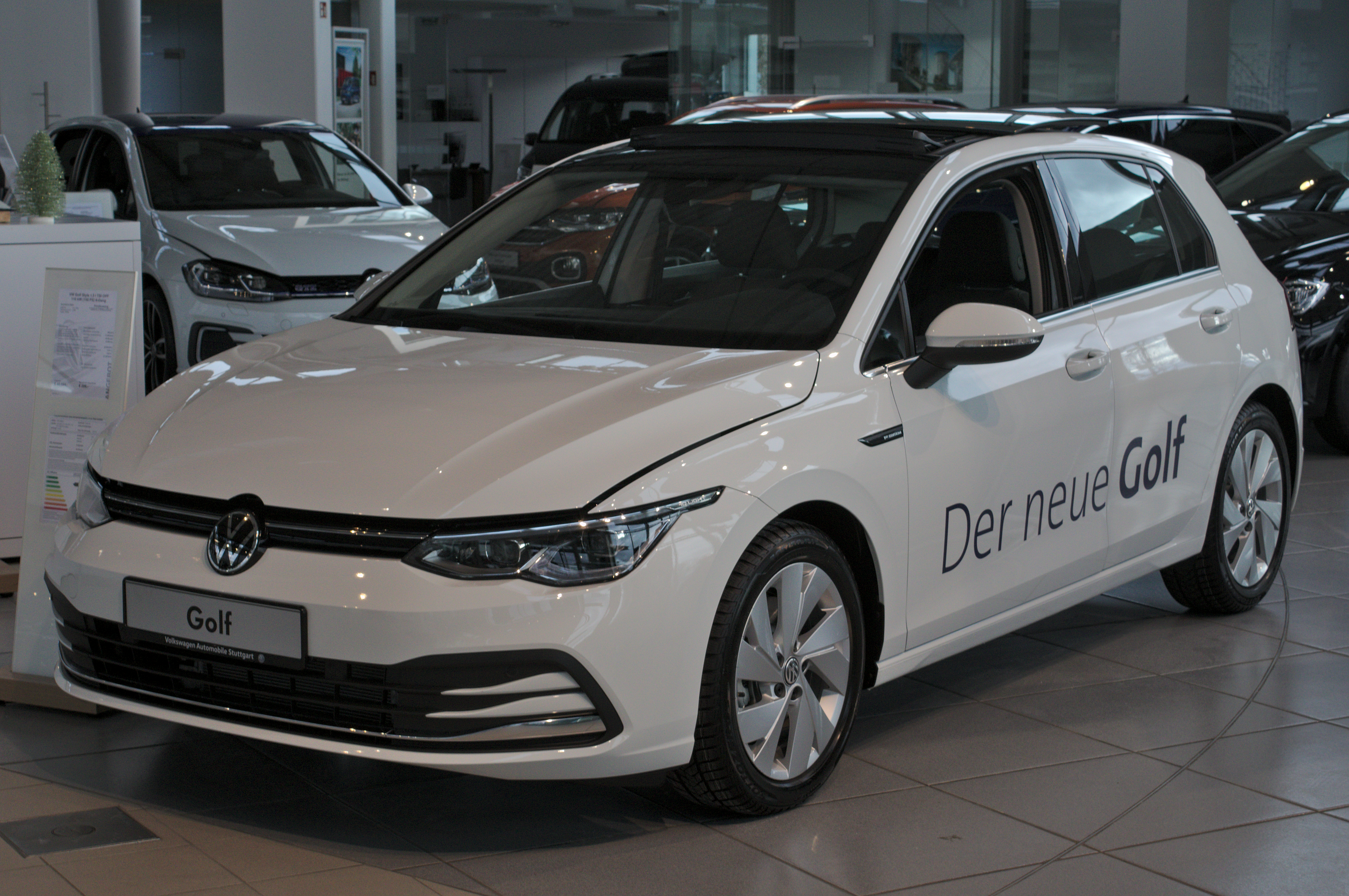 Volkswagen_Golf_VIII in Stuttgart-Vaihingen